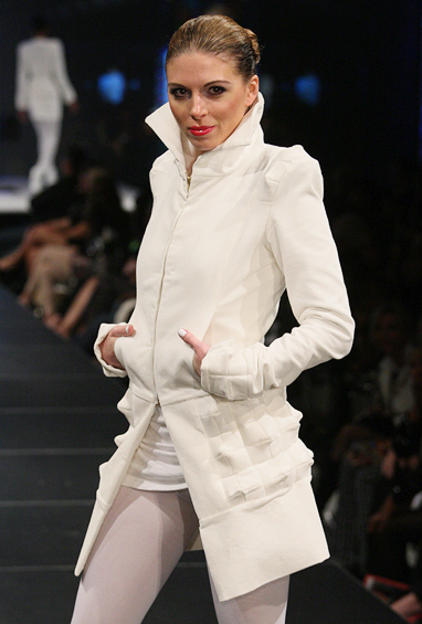 A look for Mychael Knights Fall 2010 Collection